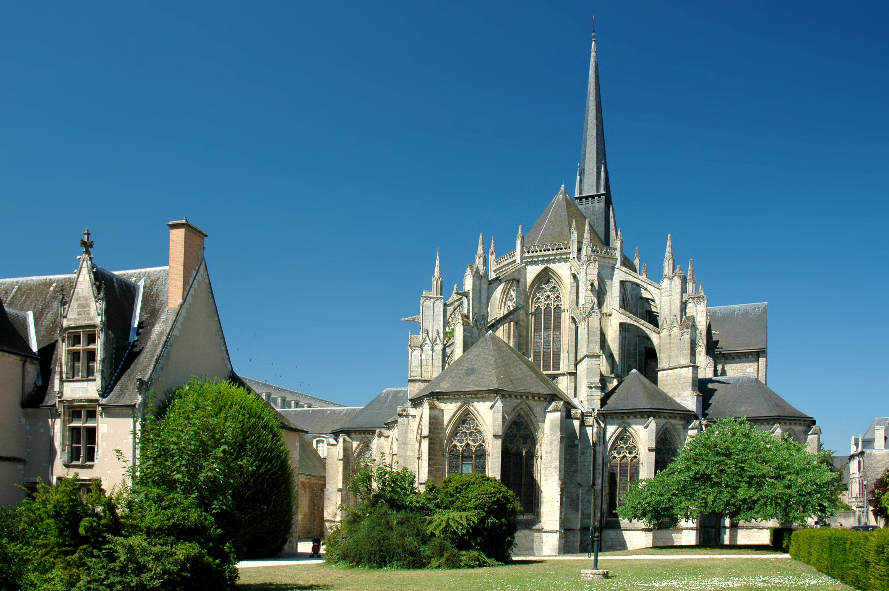 Vendôme, Loir-et-Cher, France